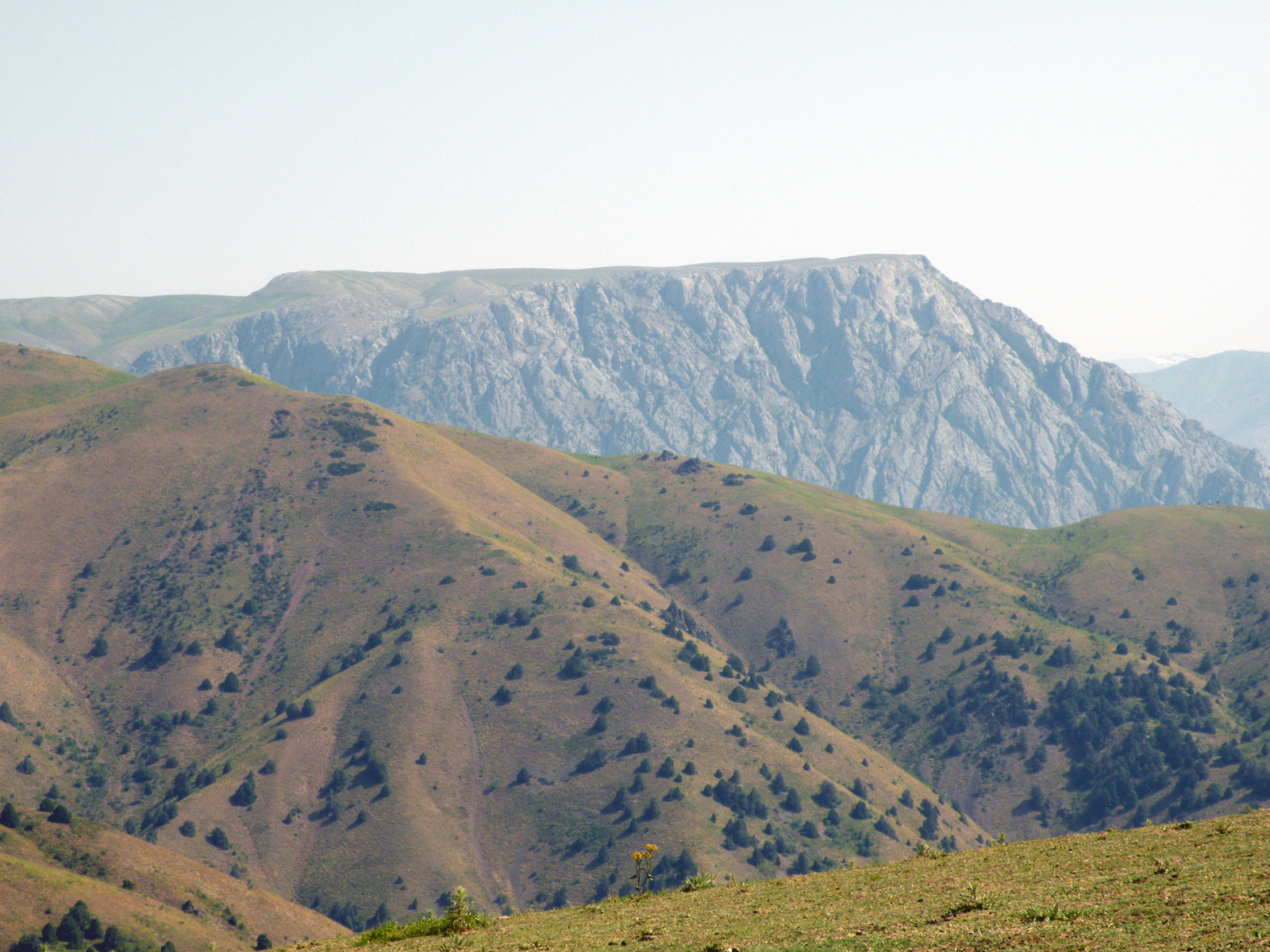 Pulatkhan view from Aktakhta pass. Tashkent area, Uzbekistan.